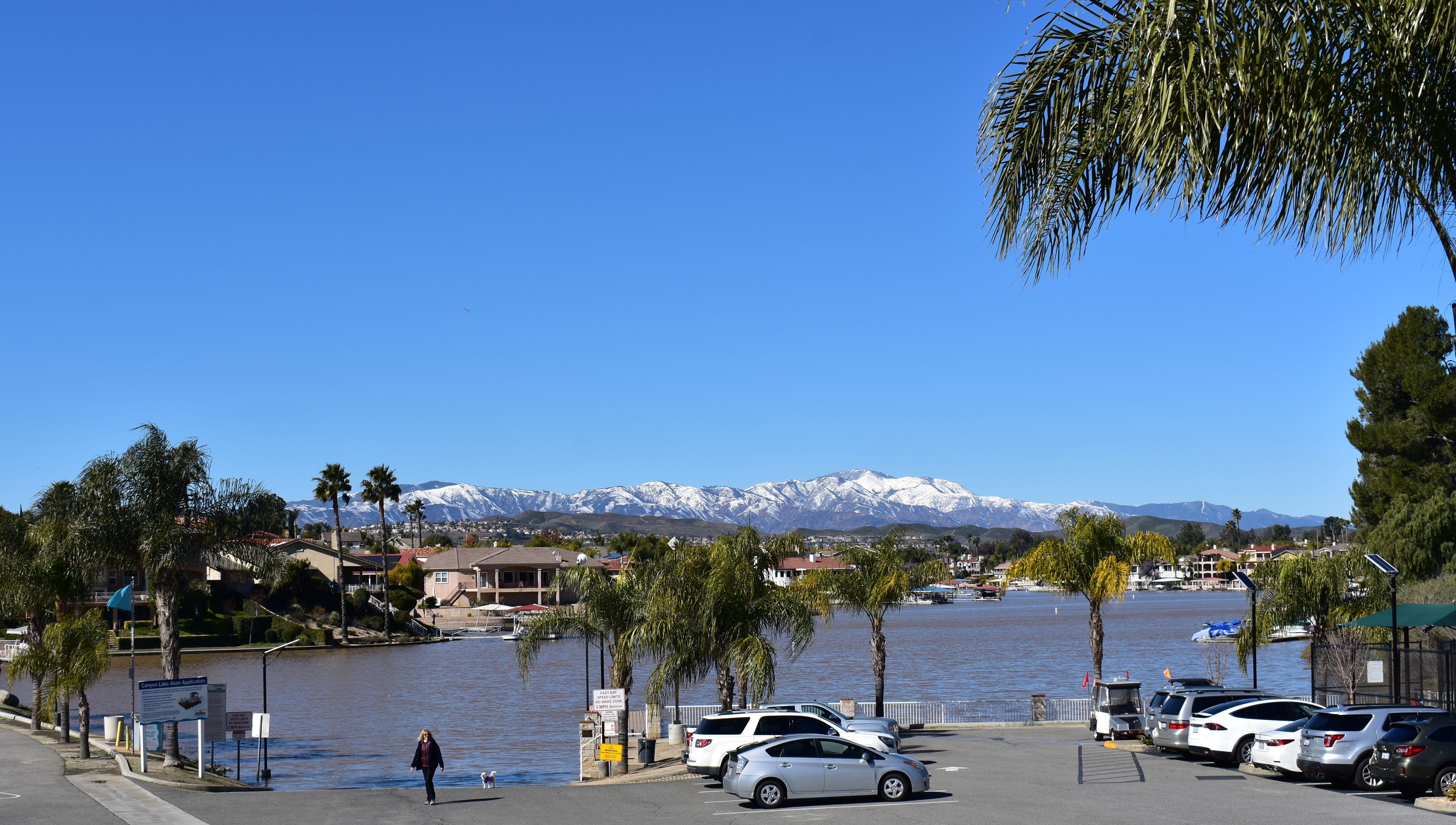 Canyon Lake, California, view to the West from Goetz Road toward Elsinore Mountains after snowfall